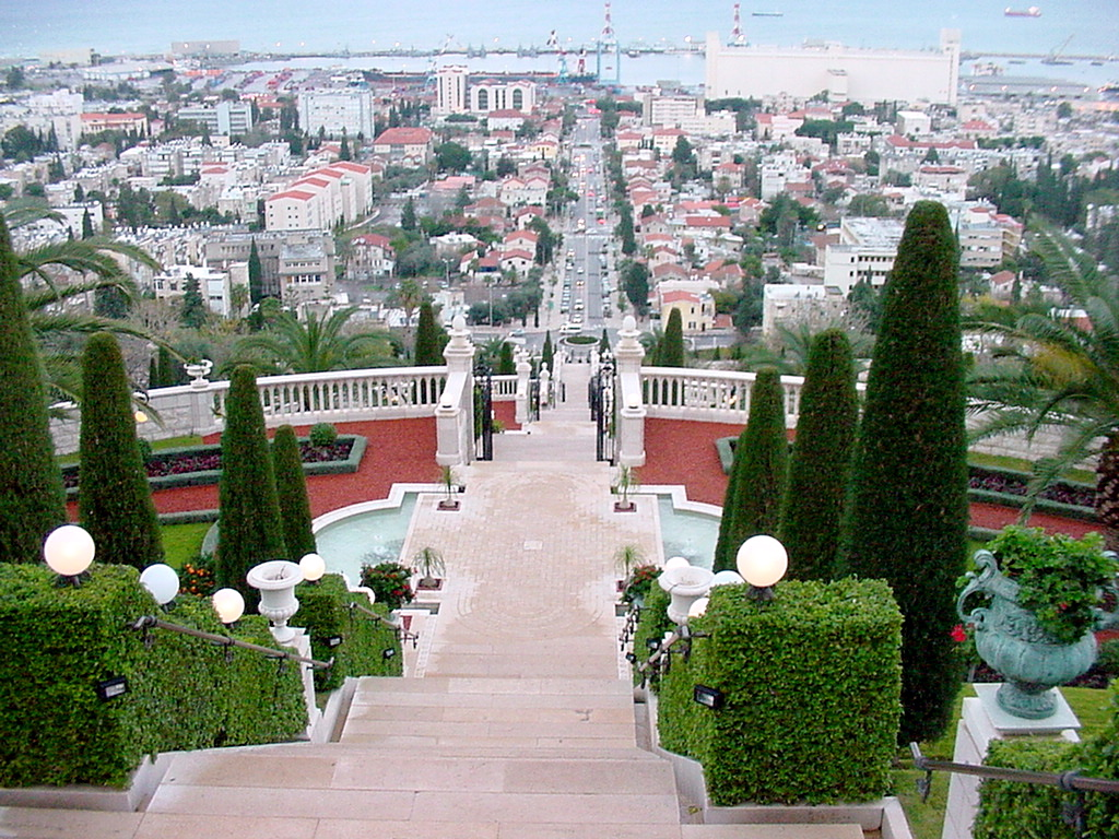 view down from the 8th Terrace of the Bahá'í Gardens, below the Shrine of the Báb.